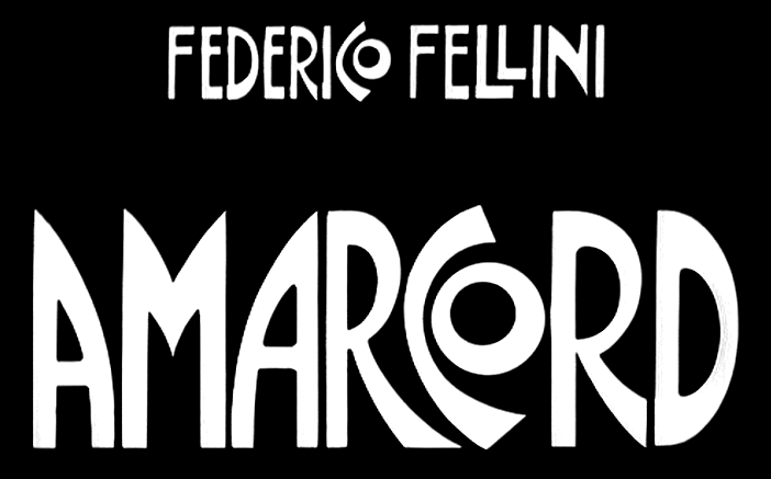 Title of Federico Fellini's movie "Amarcord"